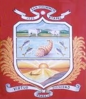 Escudo de Ayapel (Colombia)